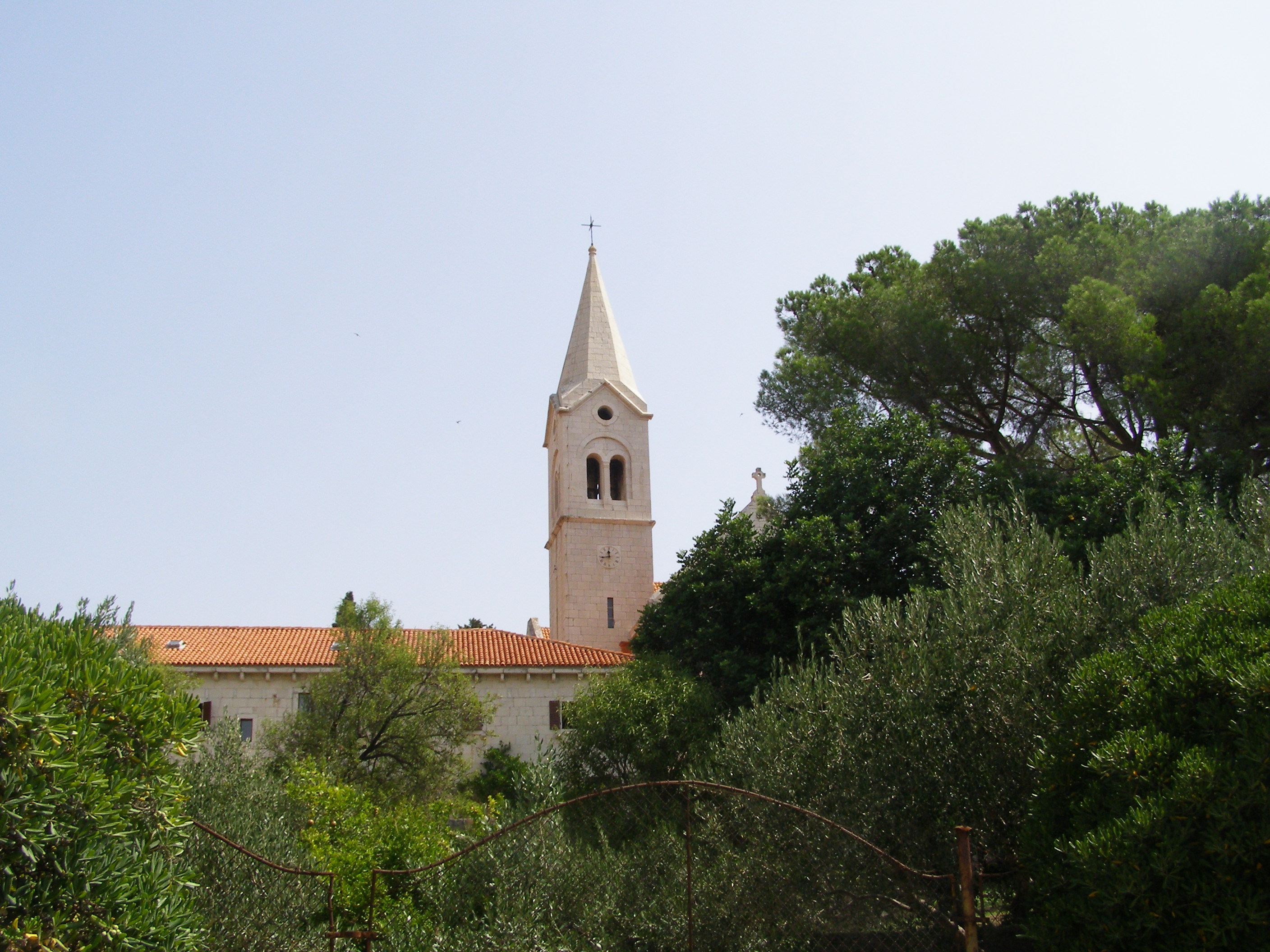 Sumartin Catholic Church, Brac, Croatia